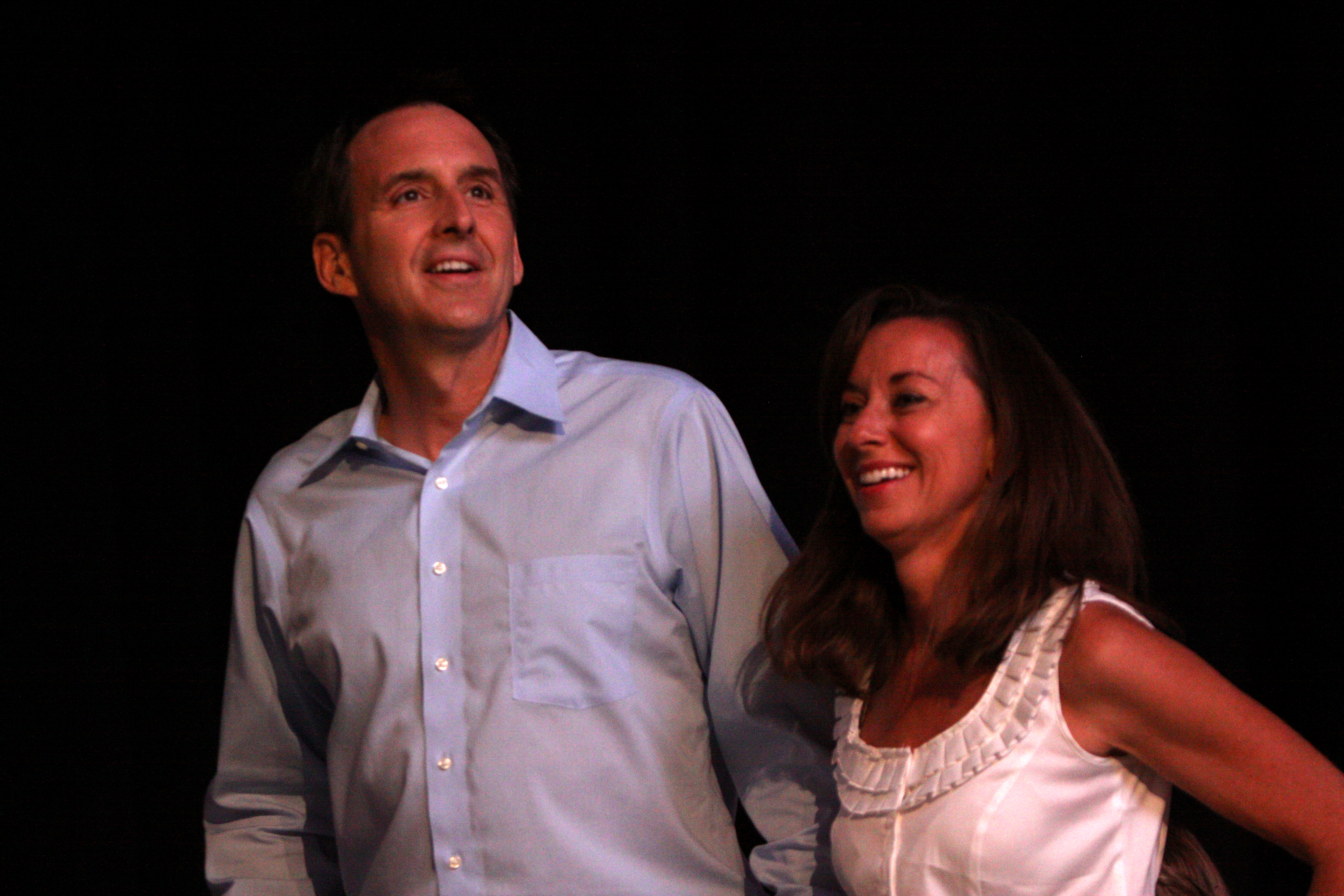 Governor Tim Pawlenty and Mary Pawlenty at the Ames, Iowa Straw Poll in Ames, Iowa.